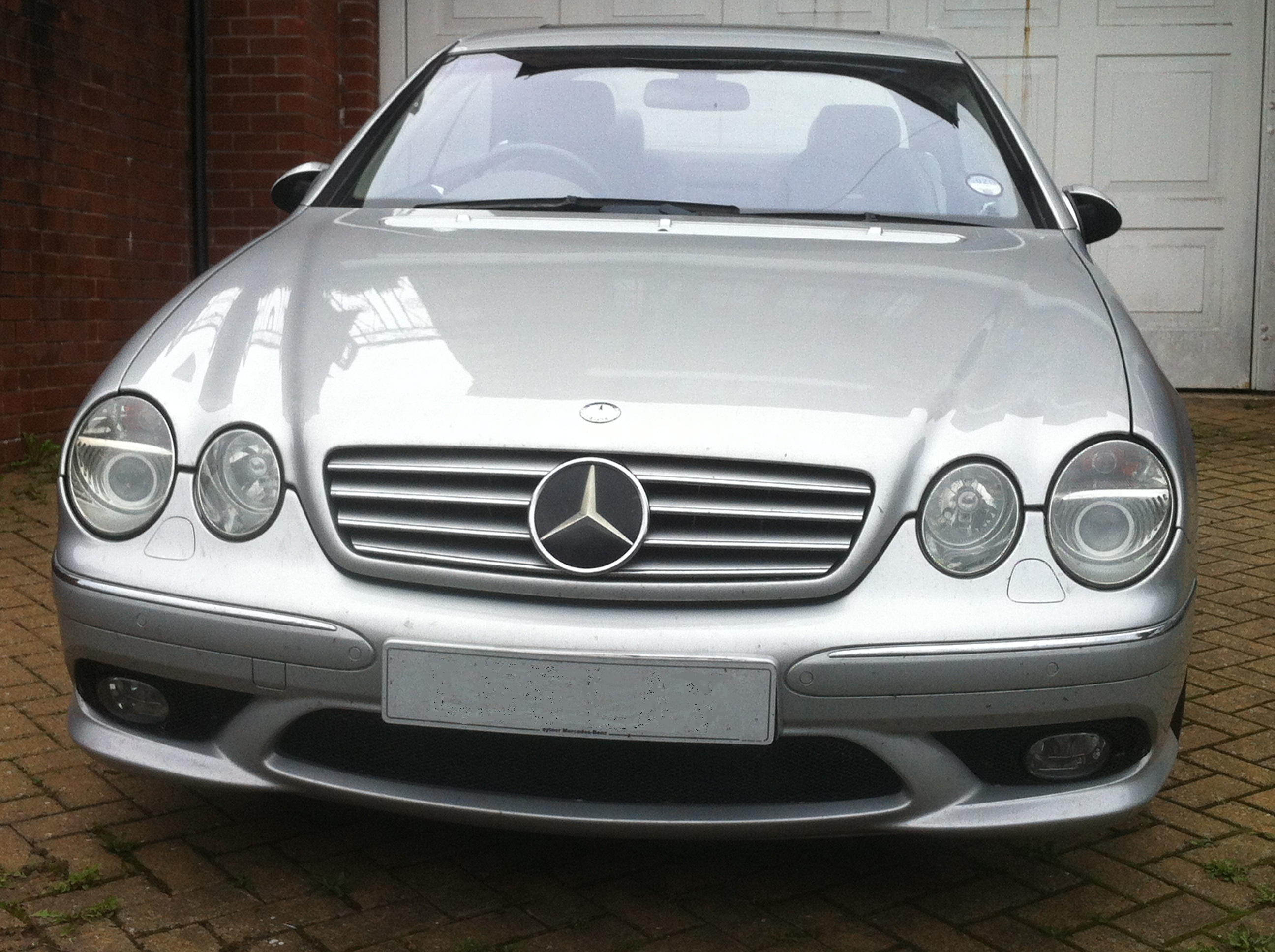 Front view of 2004MY Mercedes AMG CL55 Kompressor